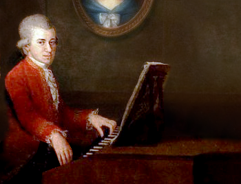 Family portrait: Maria Anna ("Nannerl") Mozart, her brother Wolfgang, their mother Anna Maria (medallion) and father, Leopold Mozart